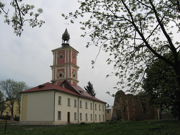 Town hall in Belz, former building of dominican monk cells